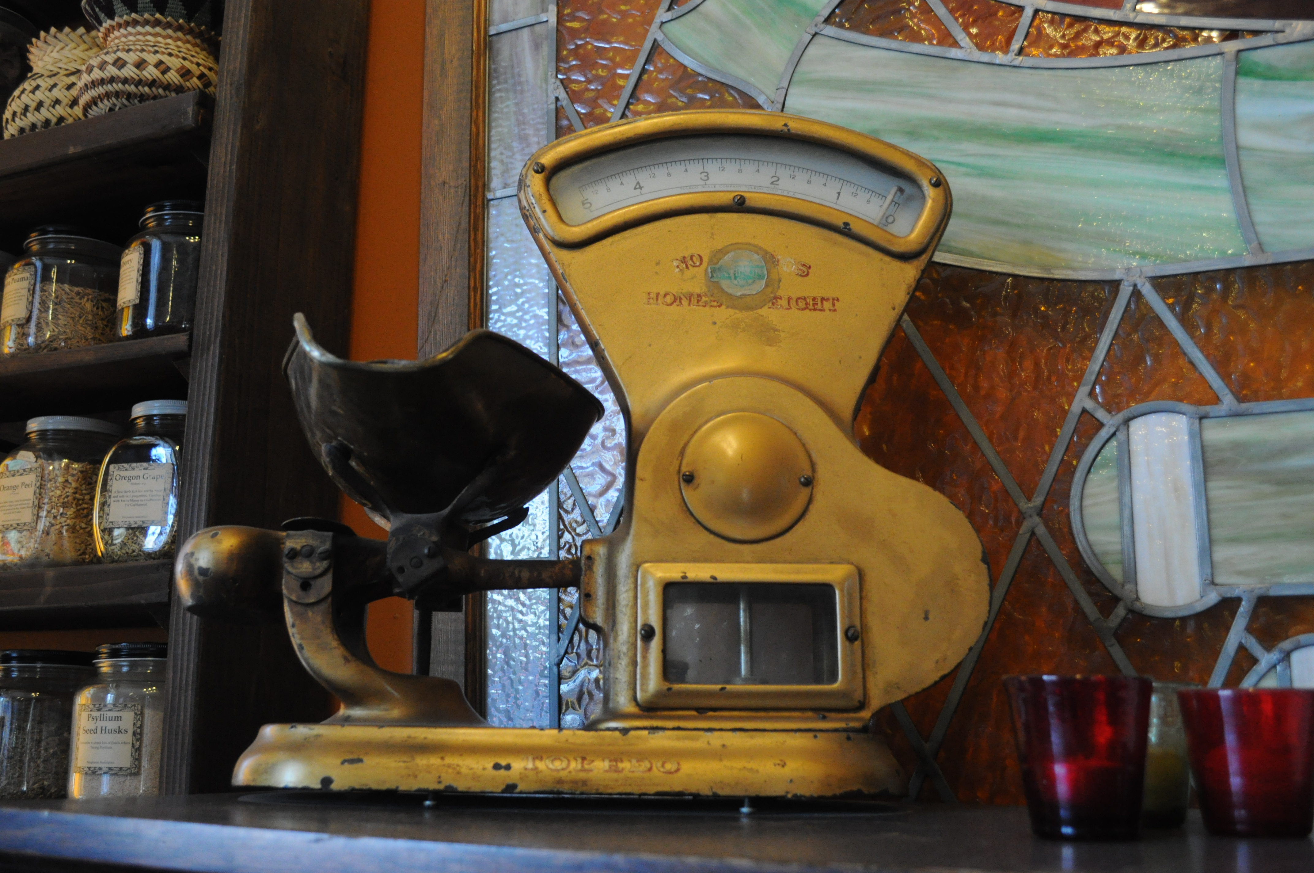 Scale, Vashon Island Coffee Roasterie, Vashon Island, Washington.